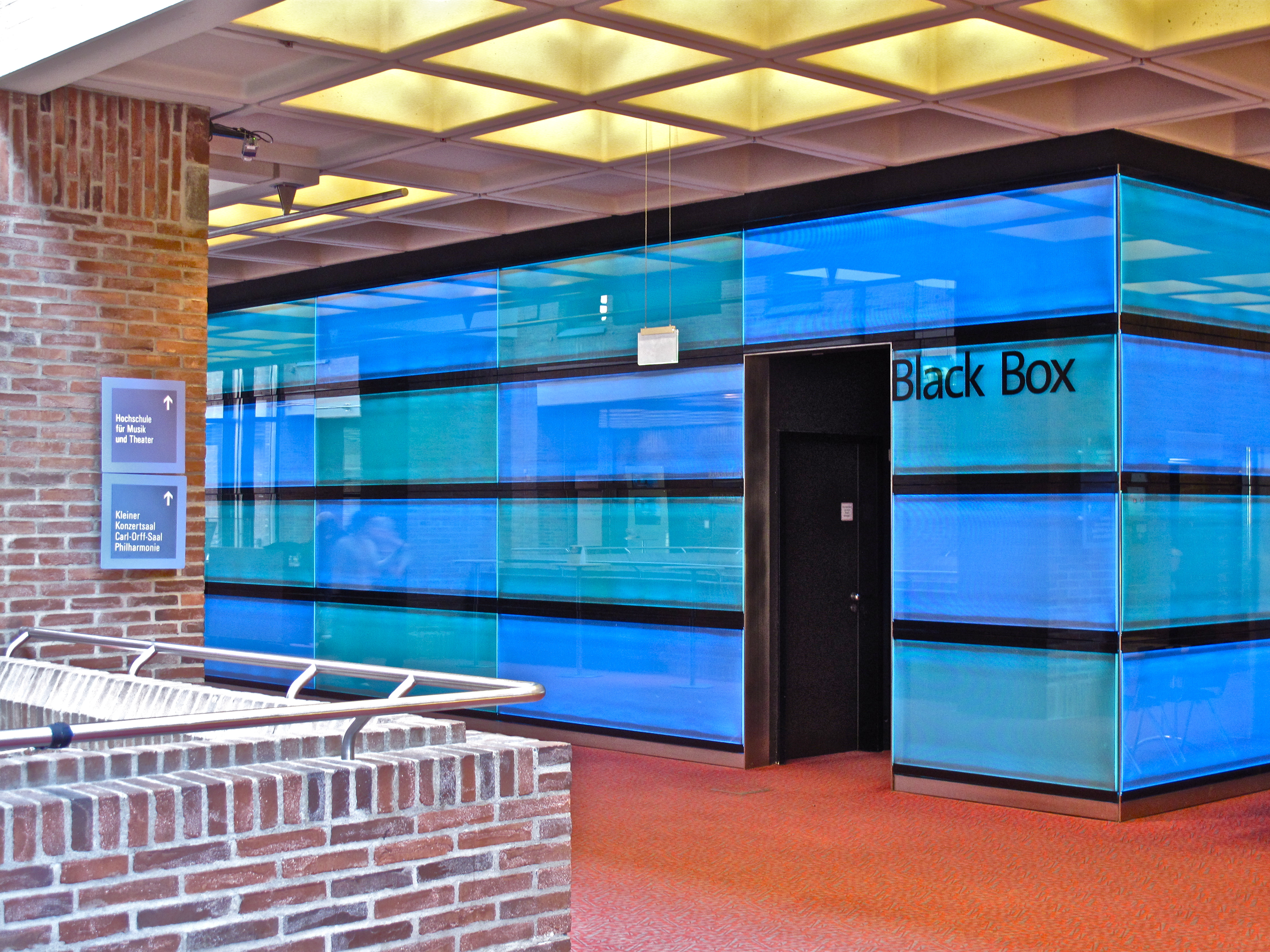 The Black Box (hall for theatre, music, lectures, films etc. for up to 249 people) in the Gasteig – the cultural centre of the city of Munich.